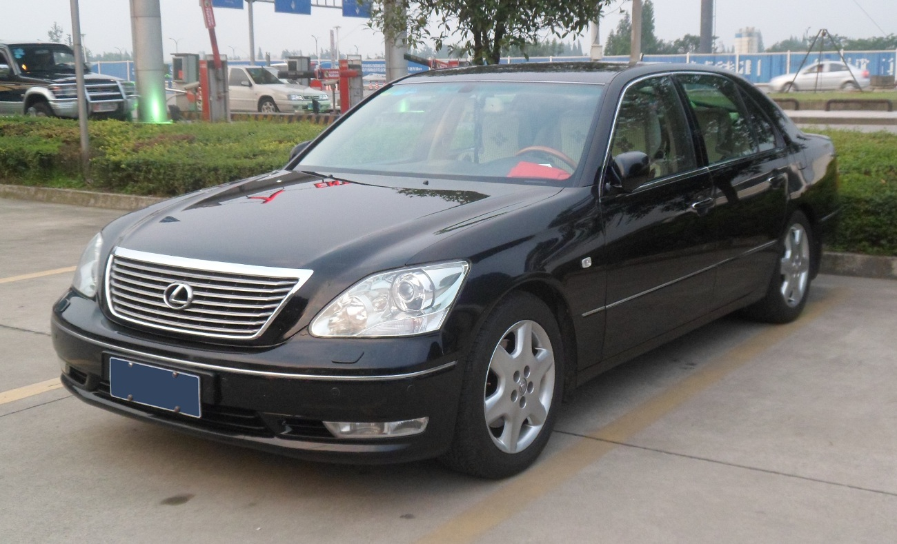 Lexus LS XF30 facelift photographed in Chengdu, Sichuan province, China.